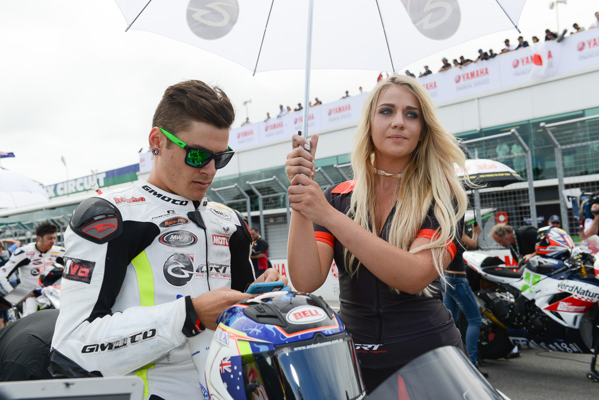 Aiden Wagner (left} on the grid at World Supersport in Australia.